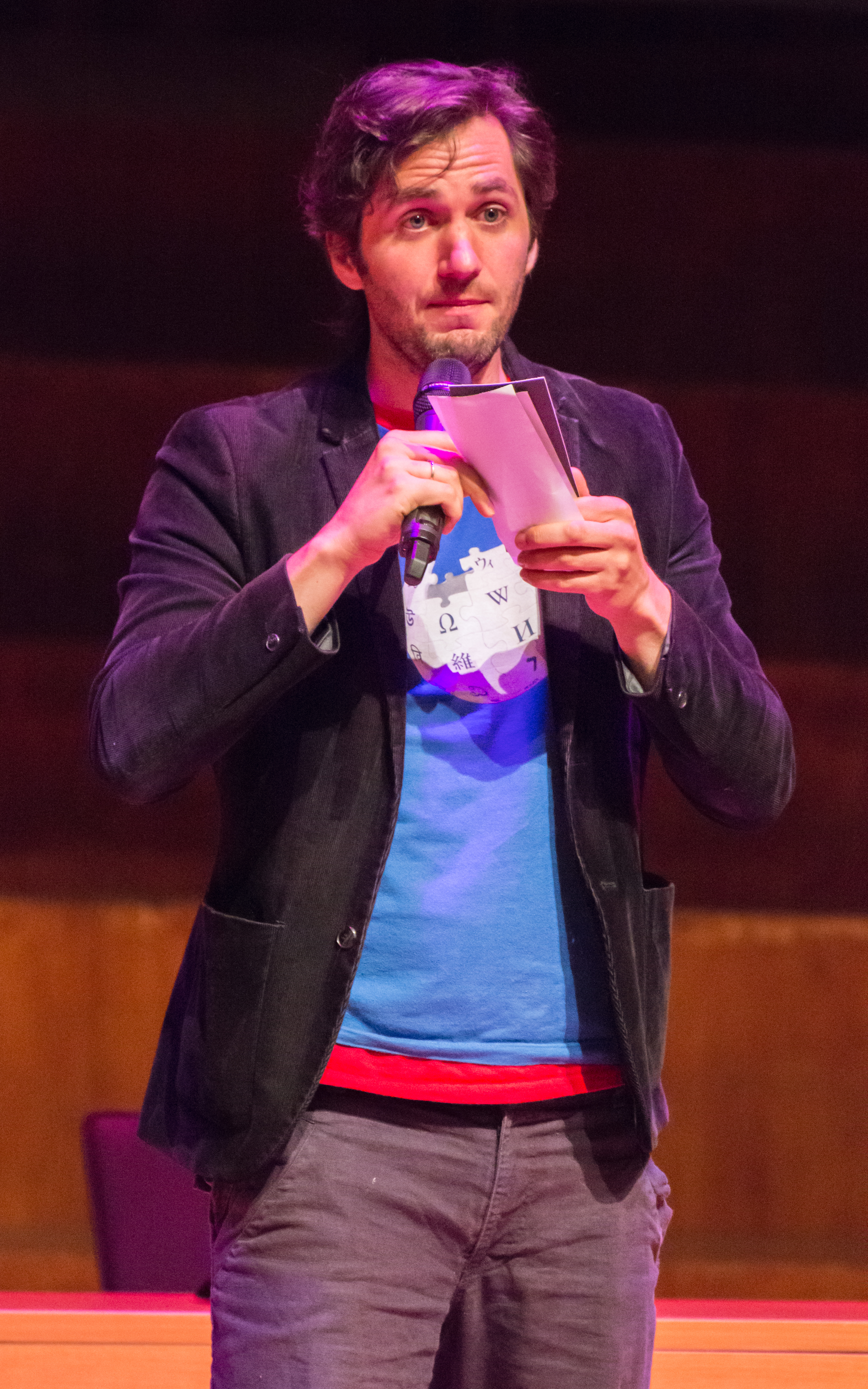 The Belgian comedian Lieven Scheire